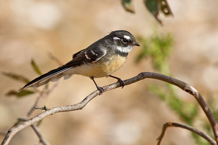 A Grey Fantail in Victoria, Australia.